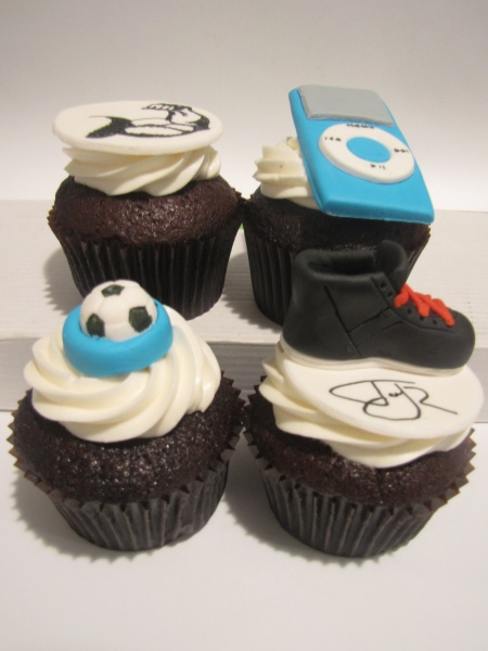 Chocolate cupcakes frosted with vanilla buttercream and topped with handcrafted fondant decorations for a young man's 16th birthday. Decorations include a muscular arm, an iPod, a soccer ball, and a Jay Z sneaker.